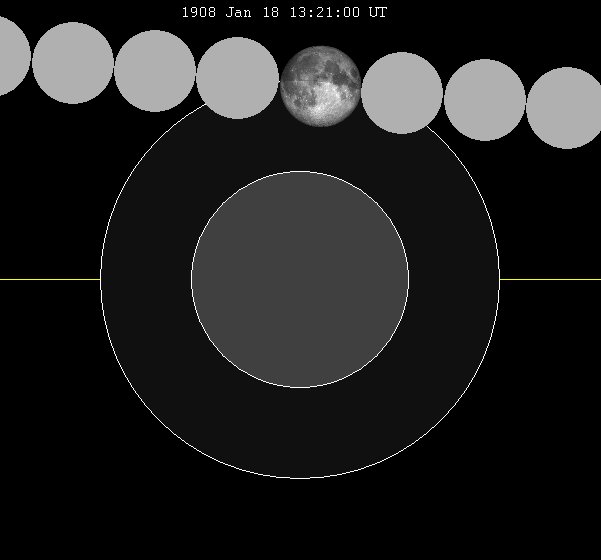 =lunar eclipse chart of moon's path through the earth's shadow. thumb